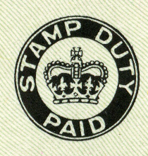 The Stamp Duty Paid mark for which replaced impressed stamps on British cheques from 1956.